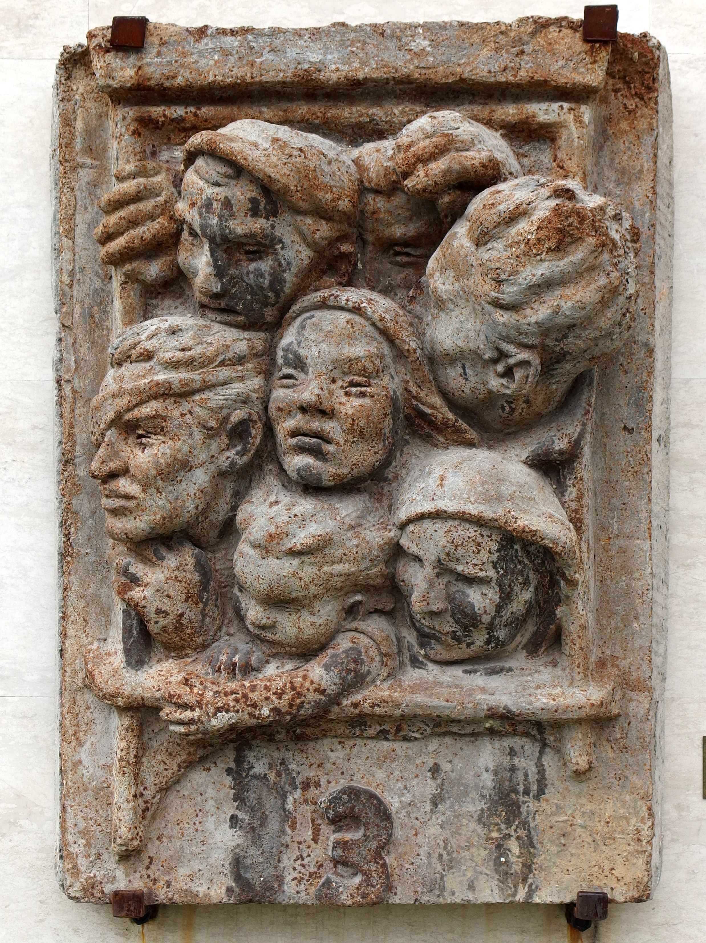 2014-06-15 in the Museum of socialist art (Sofia).